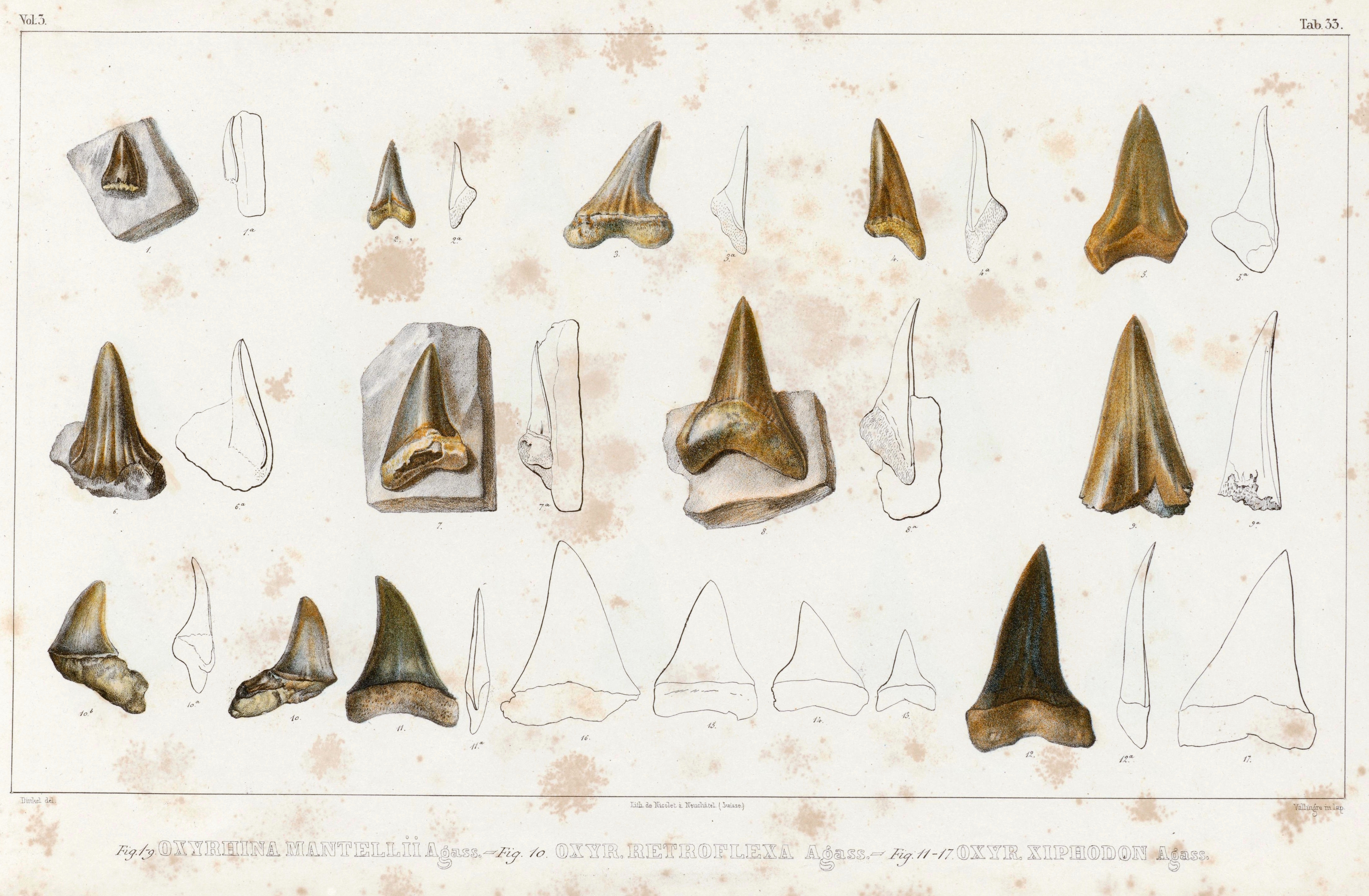 Fig. 1-9 Oxyrhina mantelli (Agassiz, 1843) Fig. 10 Oxyrhina retroflexus (Agassiz, 1843) Fig. 11-17 Oxyrhina xiphodon (Agassiz, 1843)